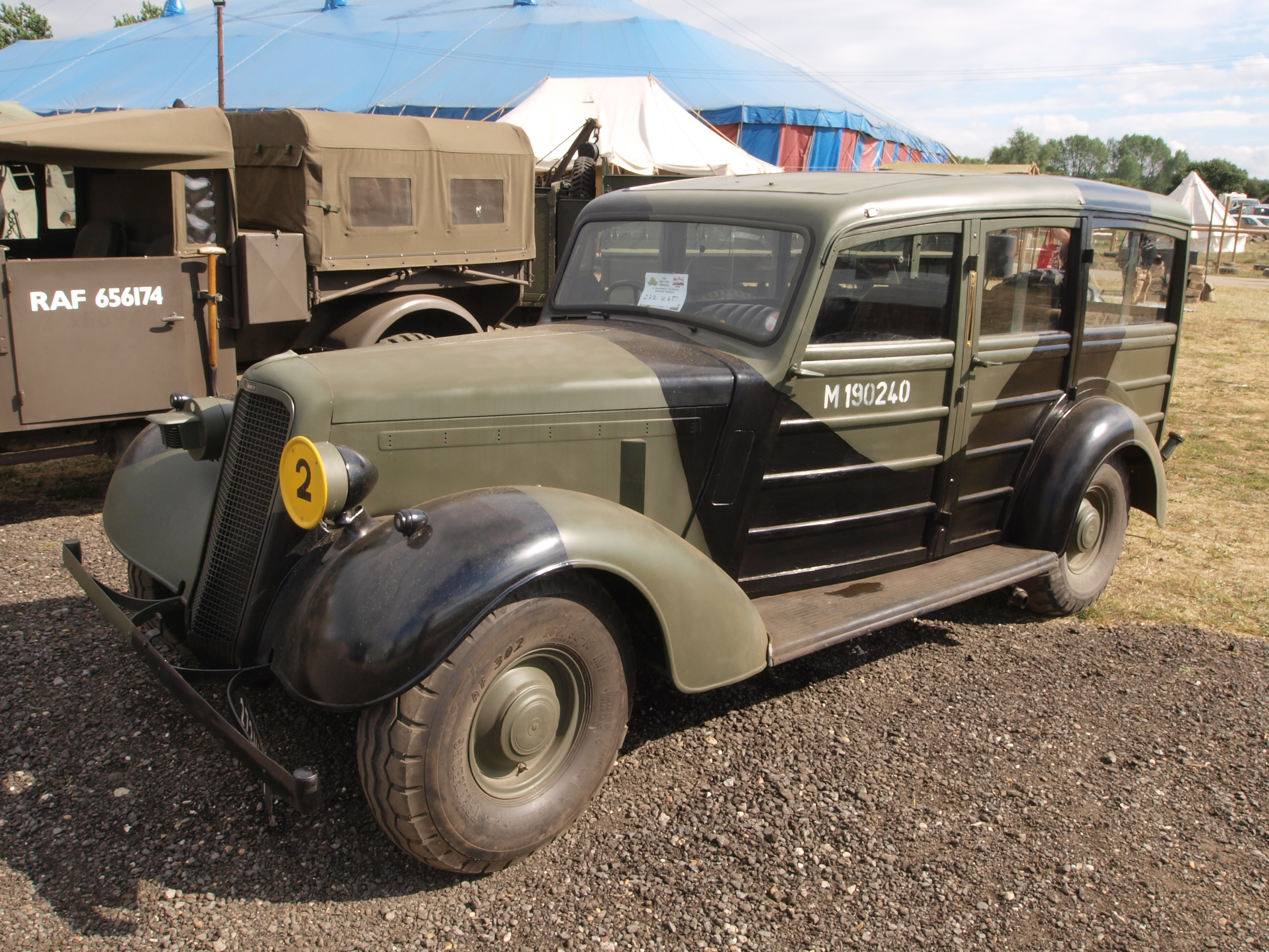 Humber registration number 'M 190240'